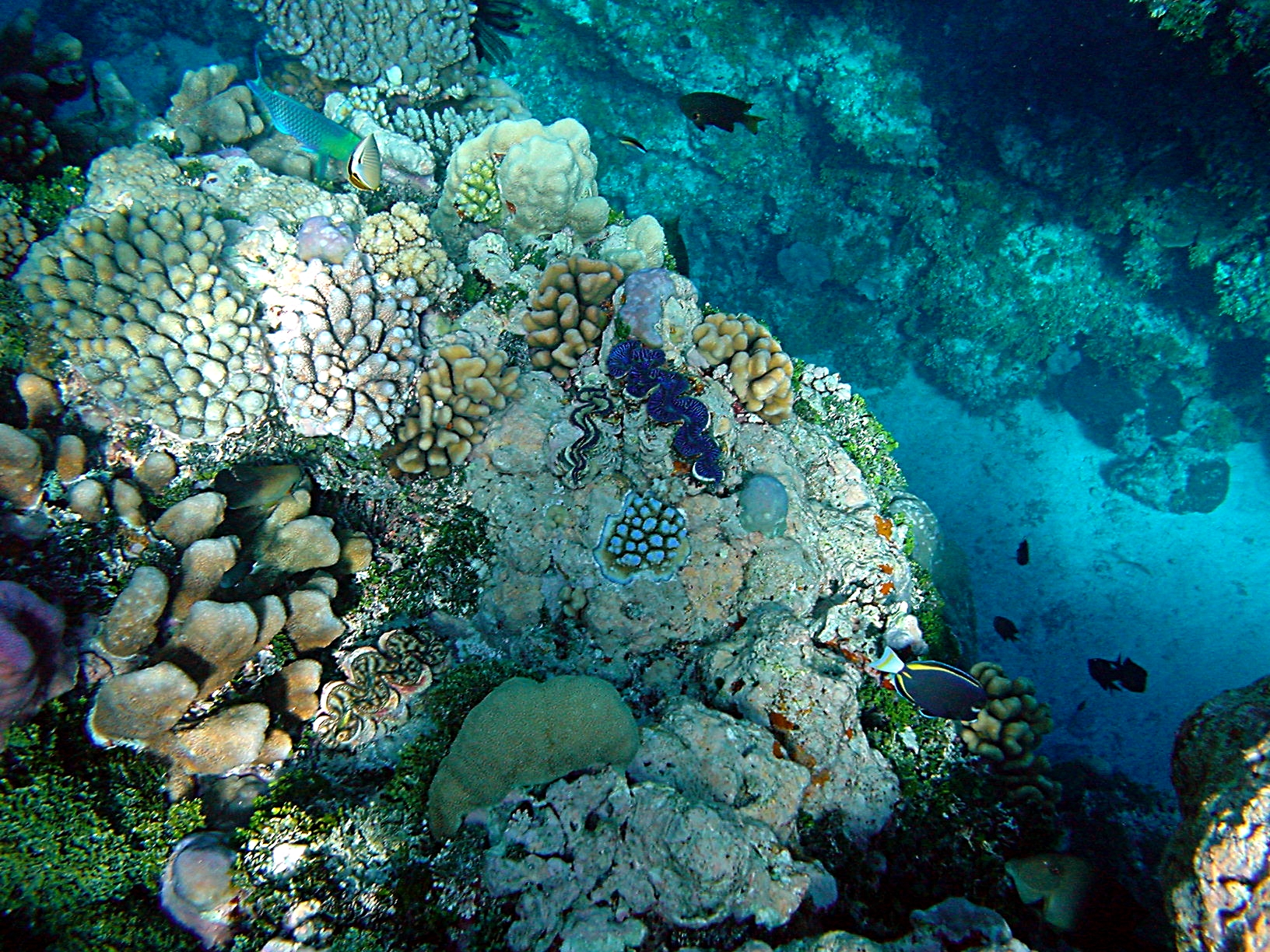 Coral reefs in Papua New Guinea with giant clams, Tridacna maxima.